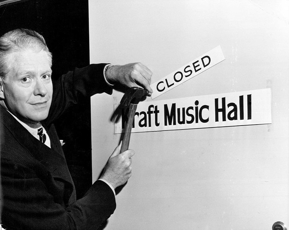 Photo of Nelson Eddy for the radio program Kraft Music Hall. The photo was taken to mark the end of the radio version of the show, which had been on the air since 1933. Kraft revived the Music Hall on television, but not until the 1950s.